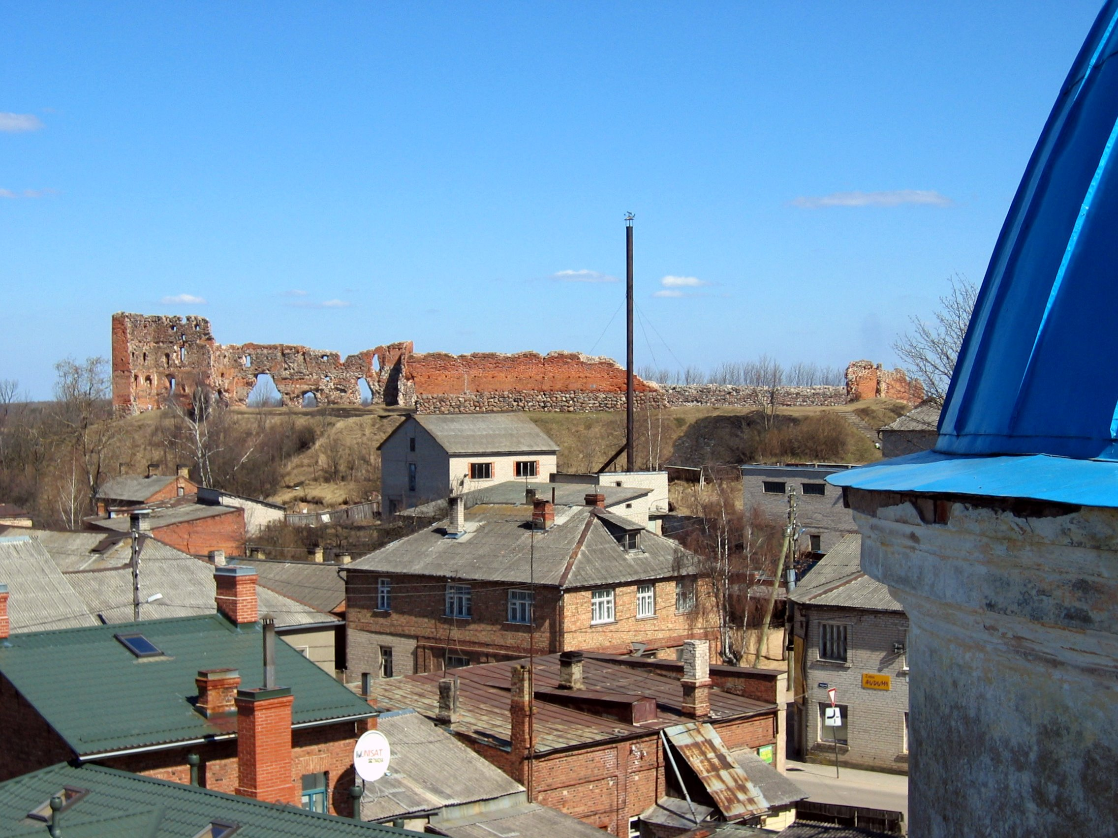 Ludza, Latvia